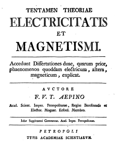 Frontpage of Tentamen (1759) bu Franz Aepinus (1724-1802)